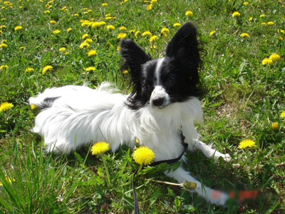 Continental Toy Spaniel Papillon